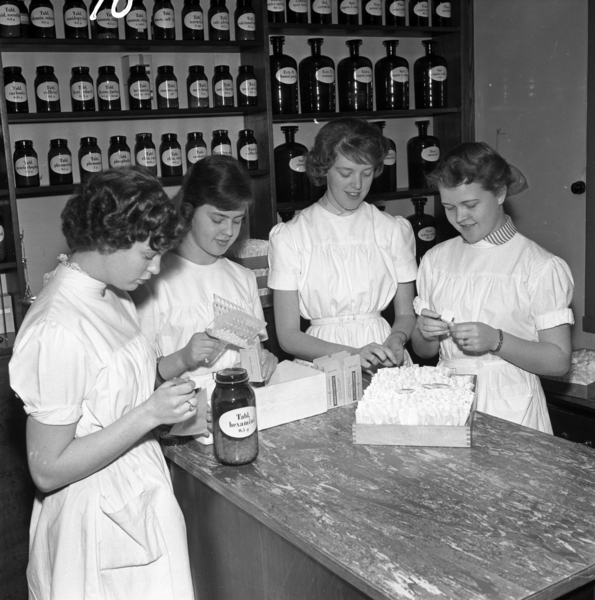 Personalbild vid tillverkning av Doktor Hjortons pulver "en sippa" på Apoteket i Huskvarna på 1950-talet - AB Conny Rich Foto. Jönköpings läns museum - CC BY